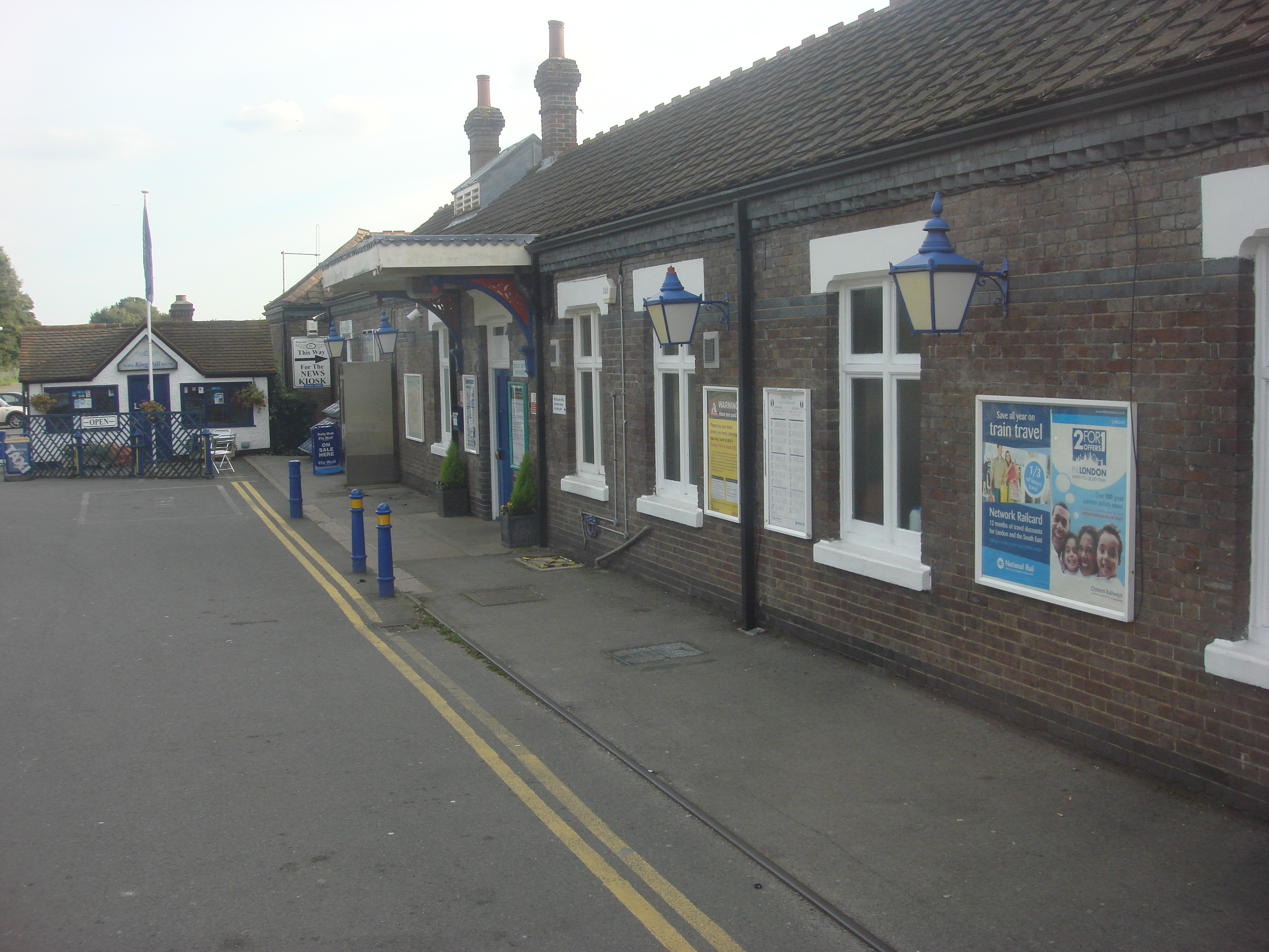 Entrance, Great Missenden railway station. A close up view of the entrance to 963871